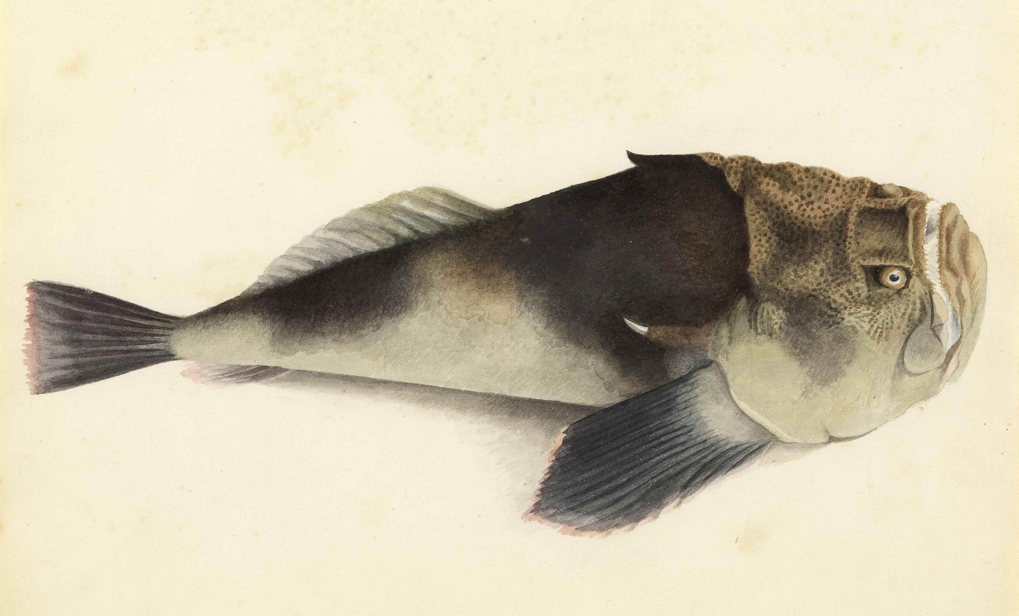 Sketch 26. Stargazer (Kathetostoma laeve) watercolour on paper sketch from the Sketchbook of fishes by Van Diemonian (Tasmanian) artist and convict William Buelow Gould (1801 - 1853). Produced c1832 as part of a thirty-six image still life sketchbook of fishes while Gould was a convict on Sarah Island at the Macquarie Harbour Penal Station. Probably done for Dr William De Little. Actual size 185 x 227 mm. This version is cropped to the main image.